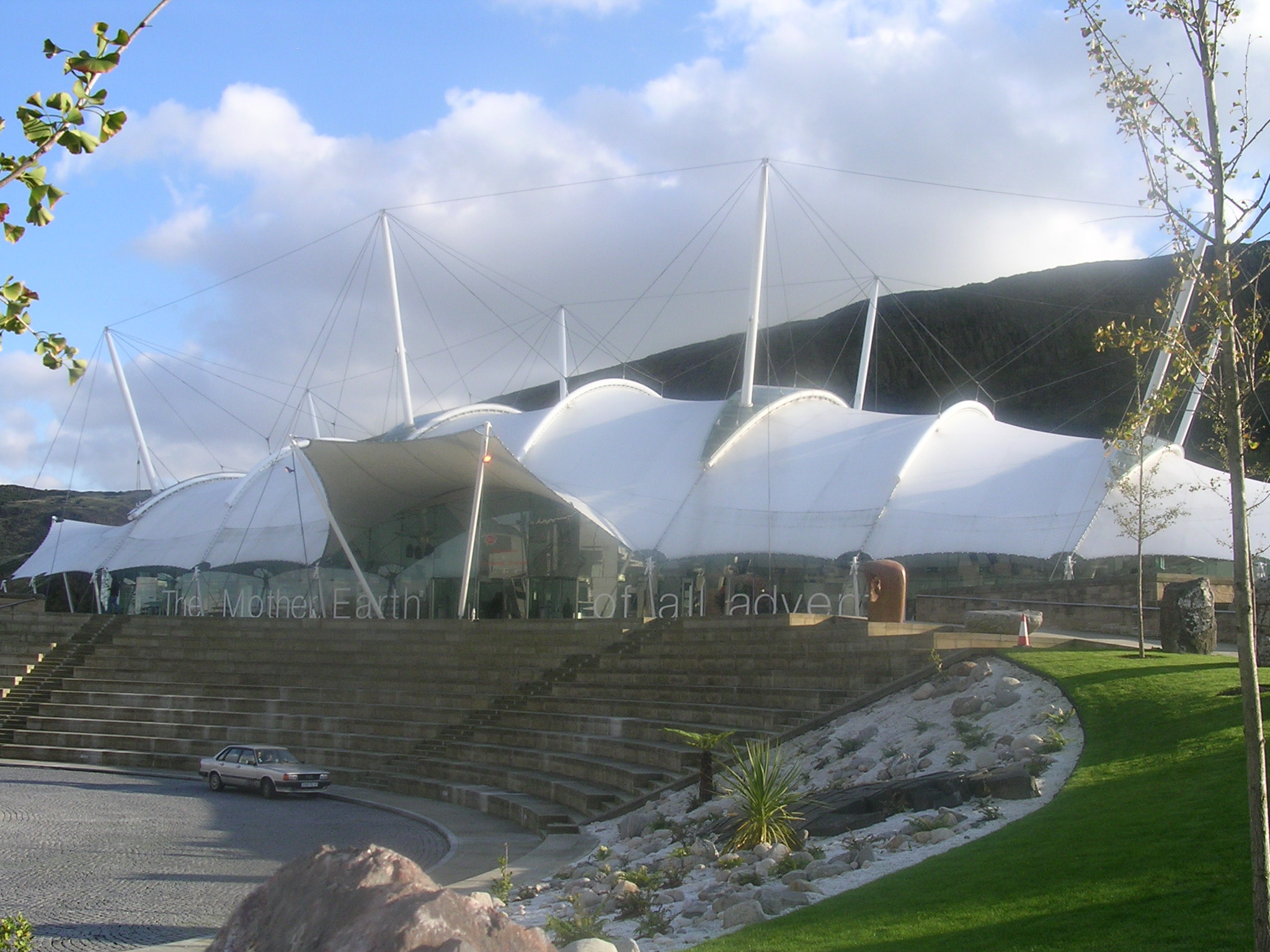 Our Dynamic Earth, Edinburgh